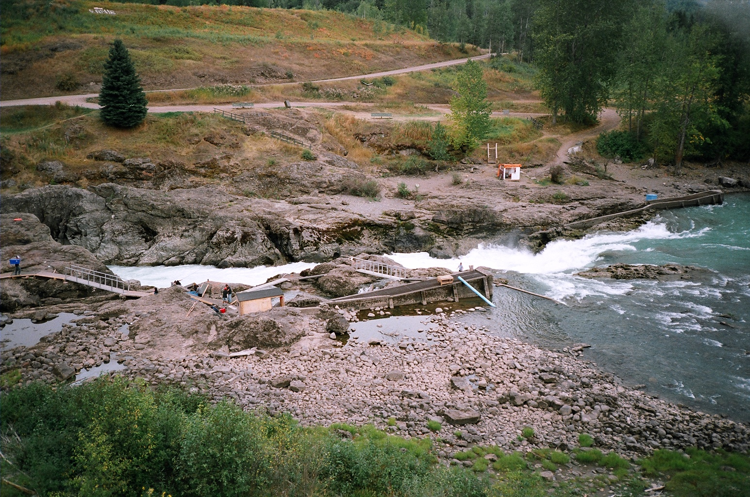 Wet'suwet'en fishing site on the Bulkley River at Moricetown Canyon, British Columbia, Canada